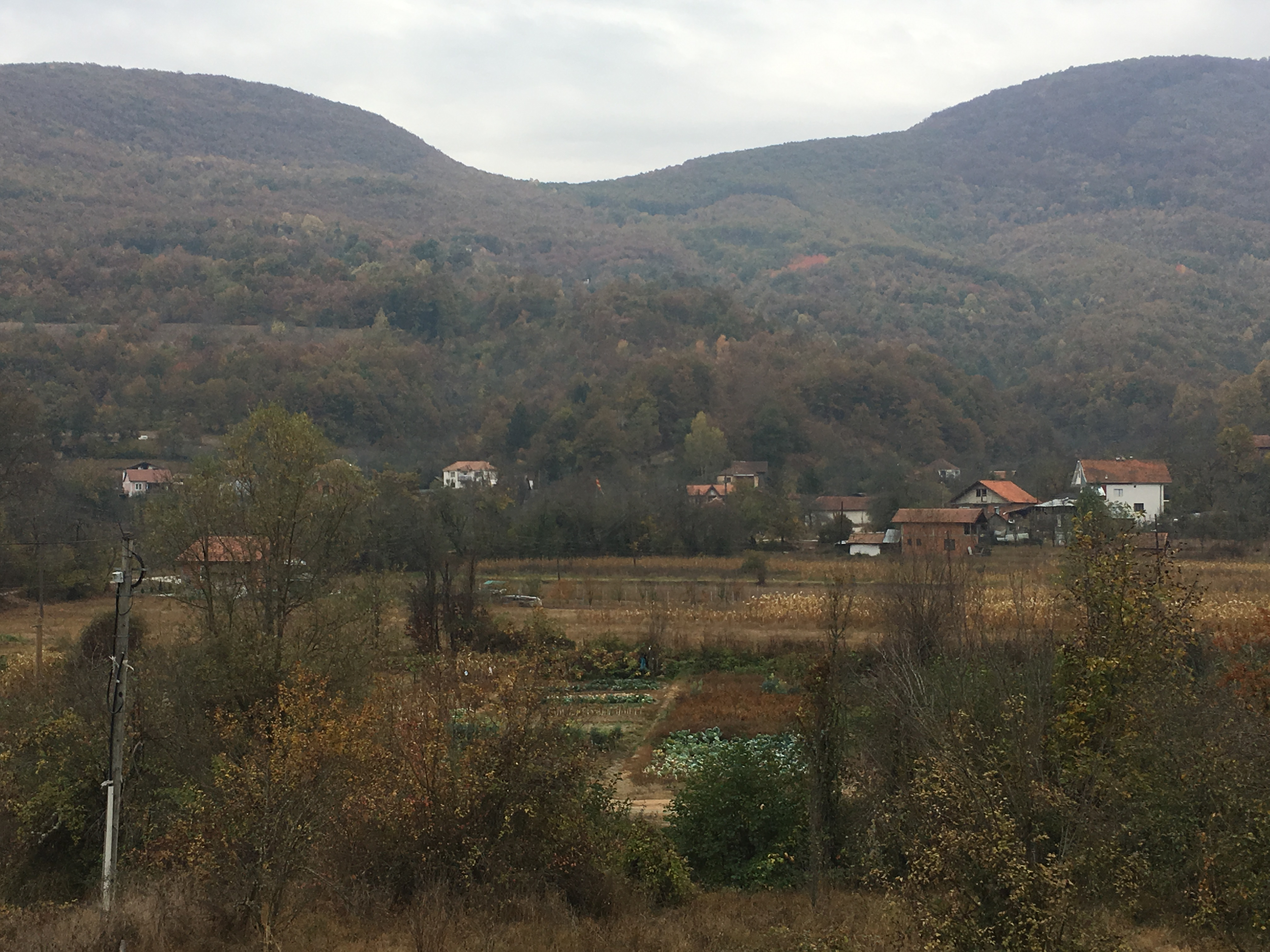 Wikiexpedition to Kopačka